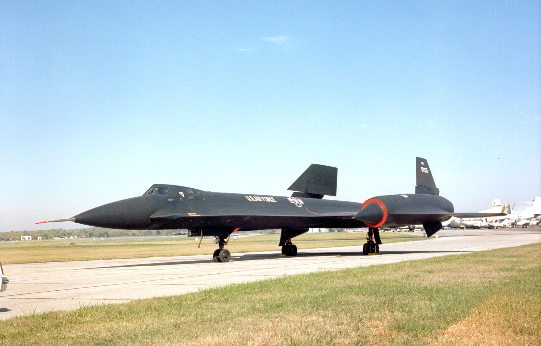 DAYTON, Ohio -- Lockheed YF-12A at the National Museum of the United States Air Force. (U.S. Air Force photo)